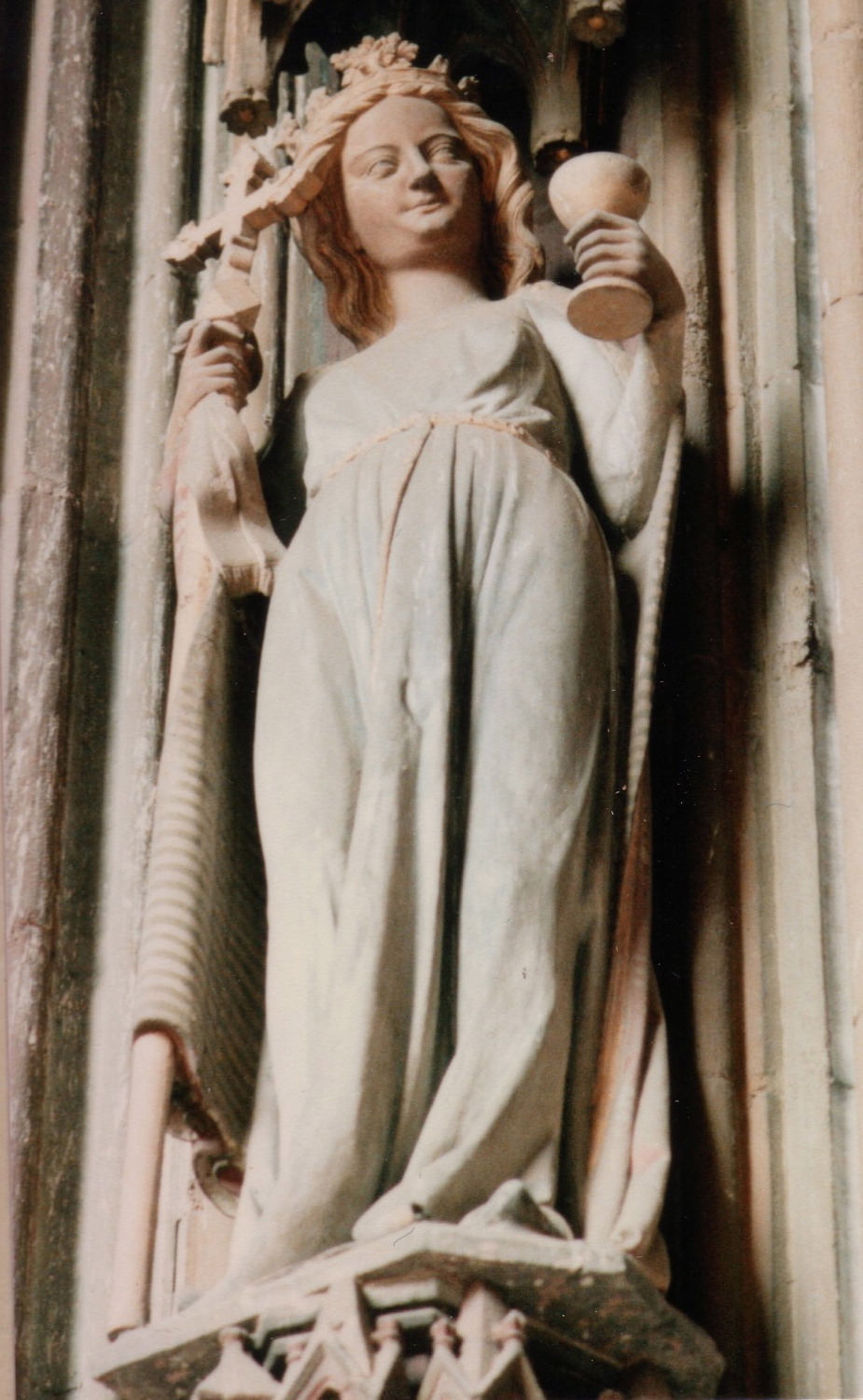 Church, depicted as a woman with eyes wide open holding a vexillum and a chalice, stands across from Synagogue at a portal to Freiburger Münster in Germany